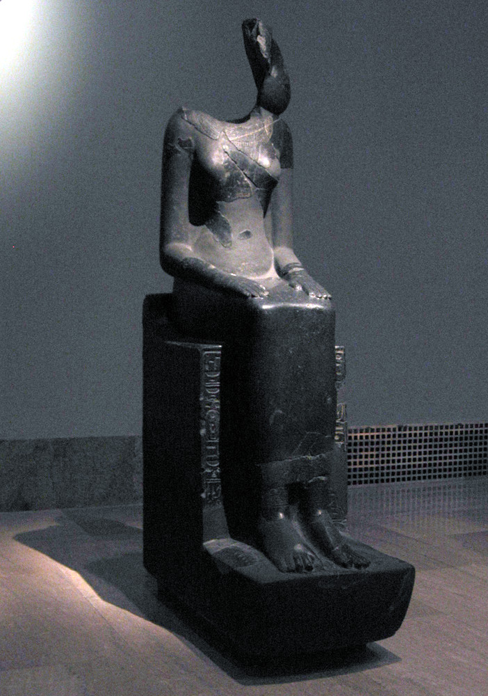 Hatshepsut wearing the khat headdress, Eighteenth dynasty of Egypt, c. 1503-1482 B.C. Black granite sculpture at the Metropolitan Museum of Art, New York City. One of only two statues of Hatshepsut found at her funerary temple that portray her with a woman's body and clothes, though she still wears the khat headdress of male kings. Found at Deir el-Bahri, Thebes. Inscriptions on the statue associate Amun with the Temple of Karnak, suggesting that the statue may have been dedicated there.